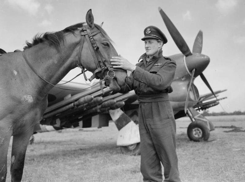 Royal Air Force 1939-1945- Fighter Command Flight Lieutenant Raymond 'Cheval' Lallemant's reputation as an admirer of all things equestrian was reflected in this shot set up in front of a Typhoon at Martragny (B-7) on 30 July 1944. The 24 year old Belgian was a flight commander with No 198 Squadron at this time, and was soon to command No 609. Badly burned in a crash in August, 'Cheval' did not return to operations until March 1945.